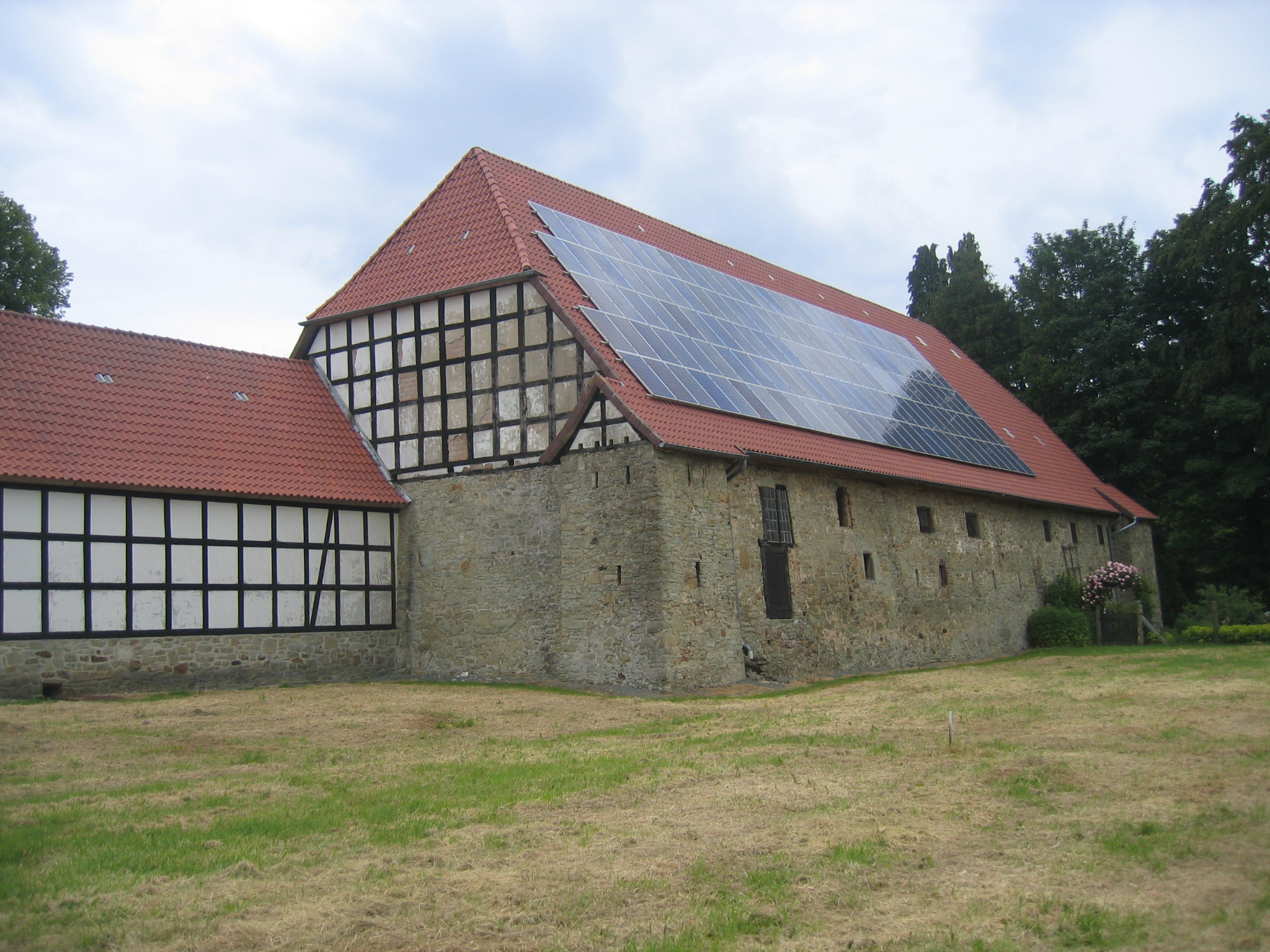 Kilver Castle in Rödinghausen, District of Herford, North Rhine-Westphalia, Germany.